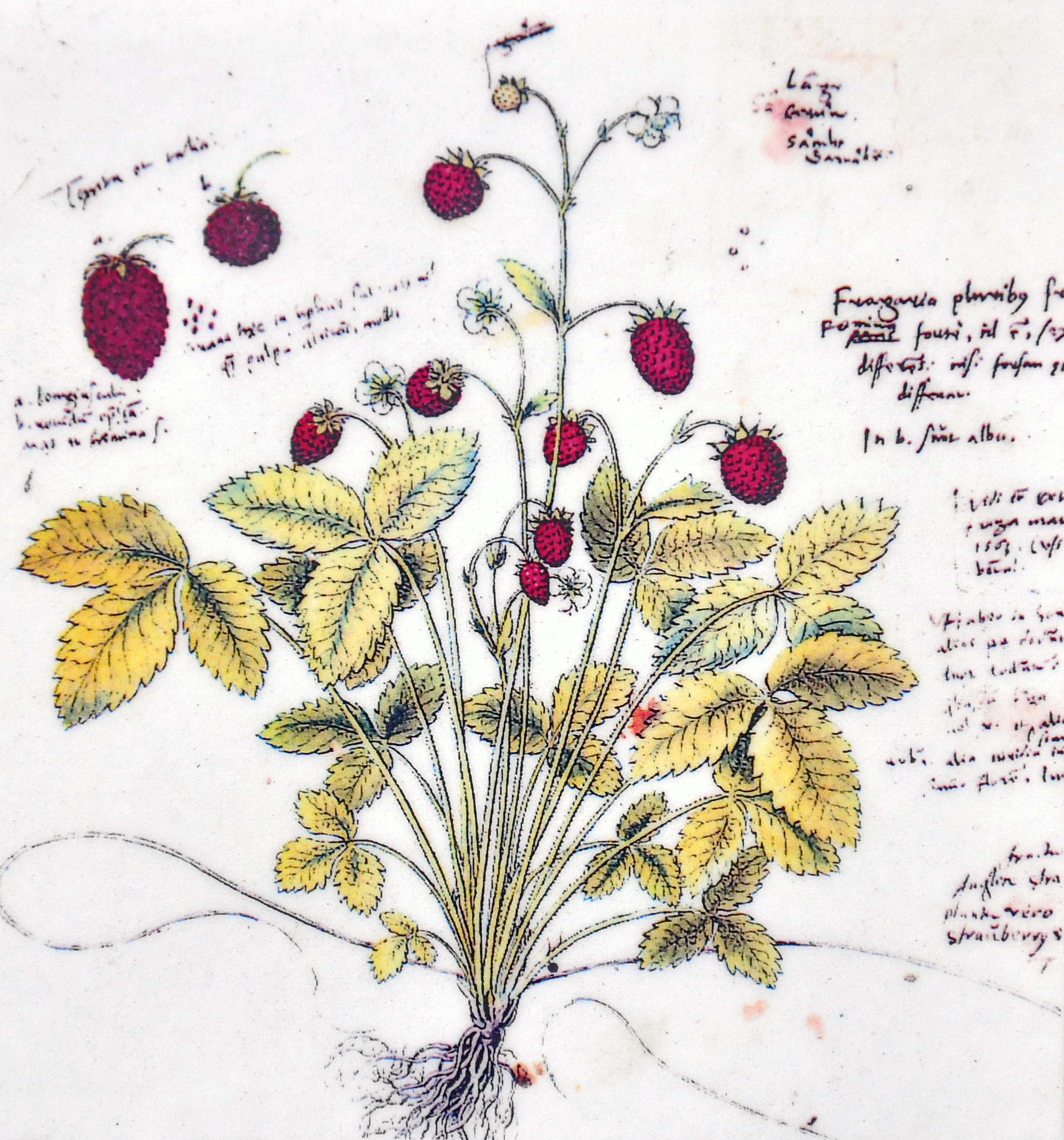 Zürich : Botanical Garden «zur Katz» (Museum of Ethnology, University of Zürich) : Fragaria vesca 'Conradi Gesneri Historia plantarum' by Conrad Gessner (* 1516; † 1565)